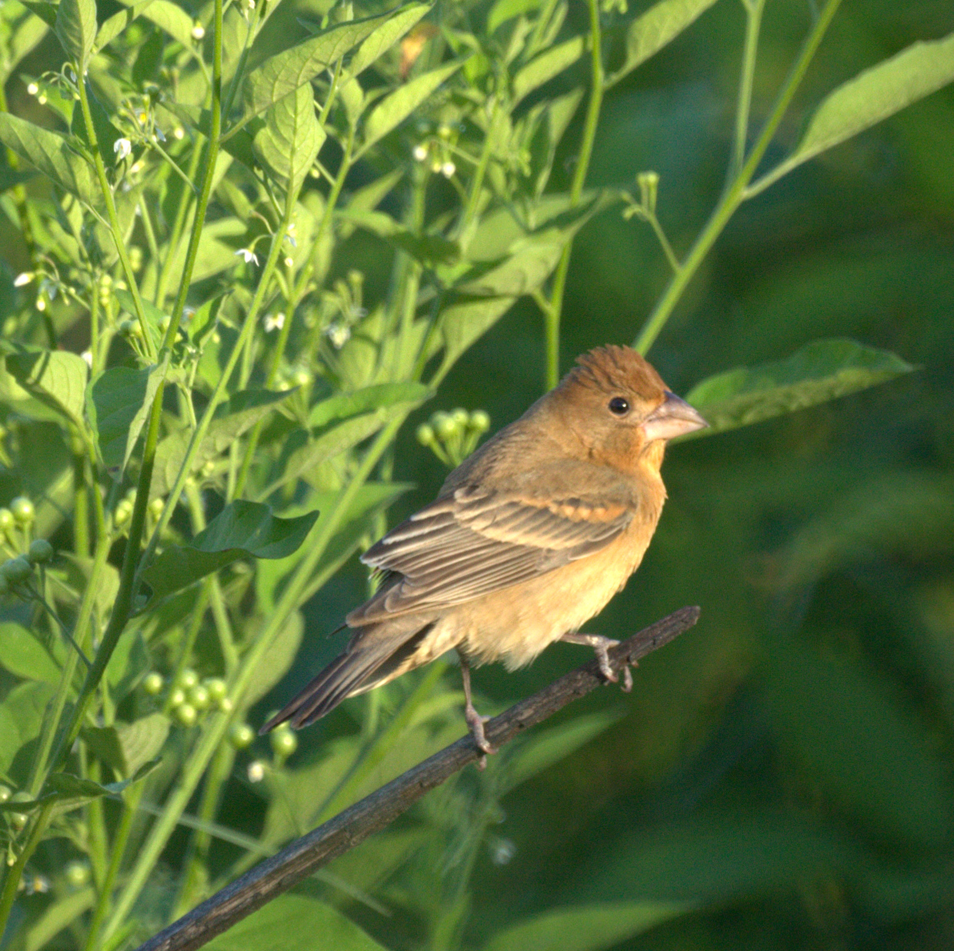 Passerina caerulea (blue-grosbeak) on Dauphin Island, Alabama